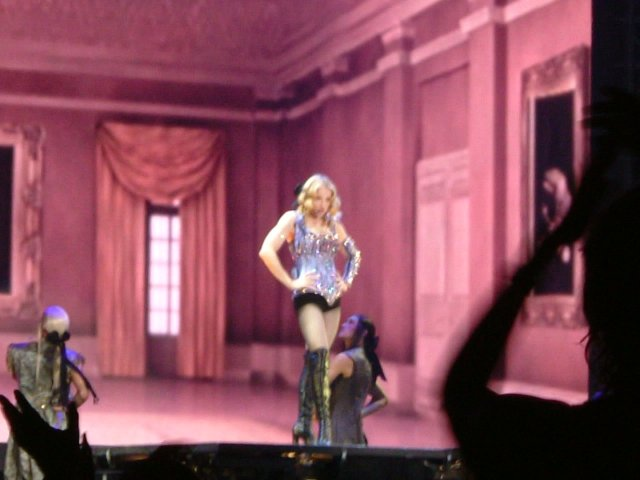 Picture taken by a fan from the 2004 concert